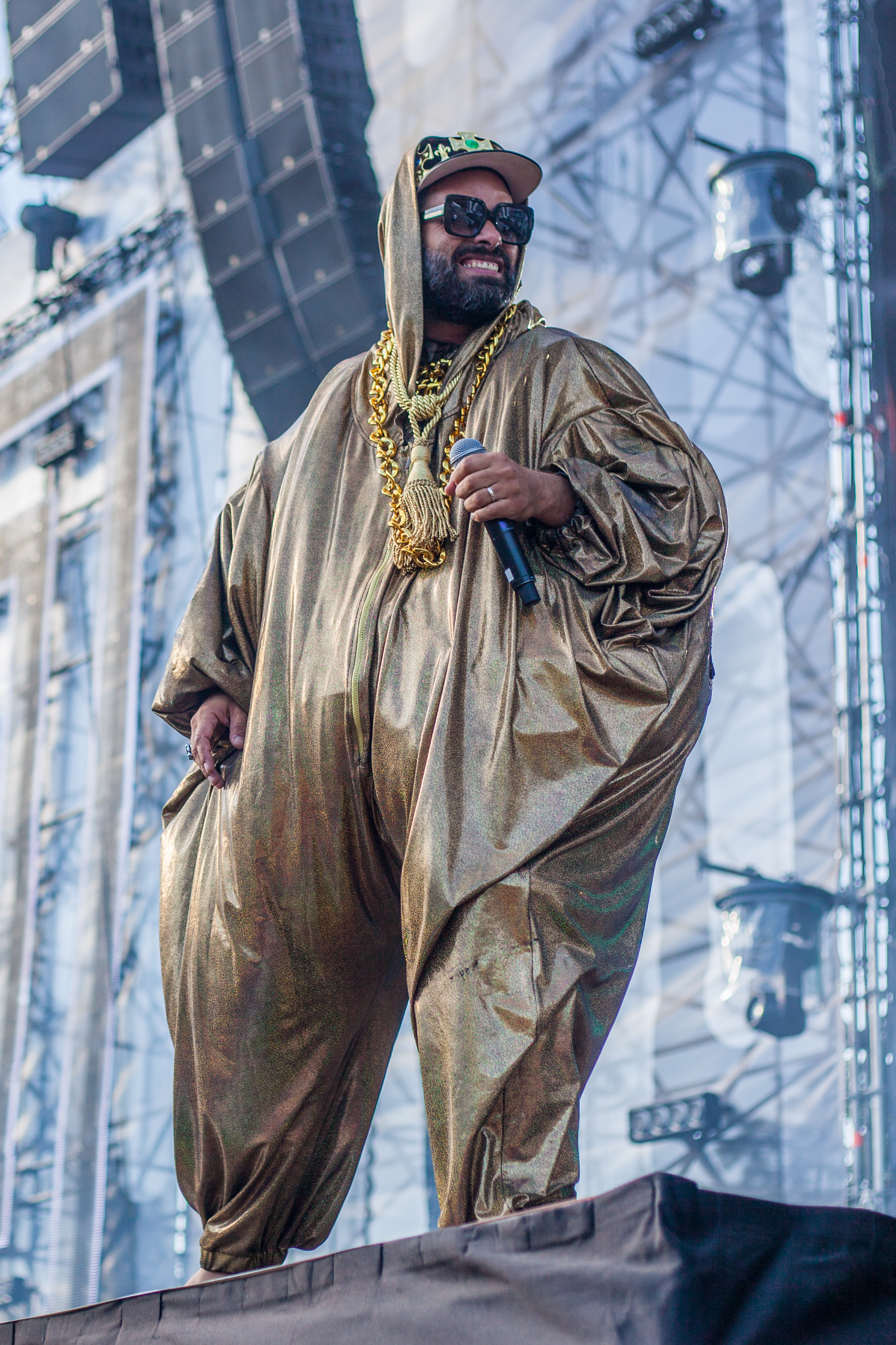 Kapitán Demo (Jiří Burian) performing at Beats for Love 2019 (Ostrava, Czechia) on 4 July 2019